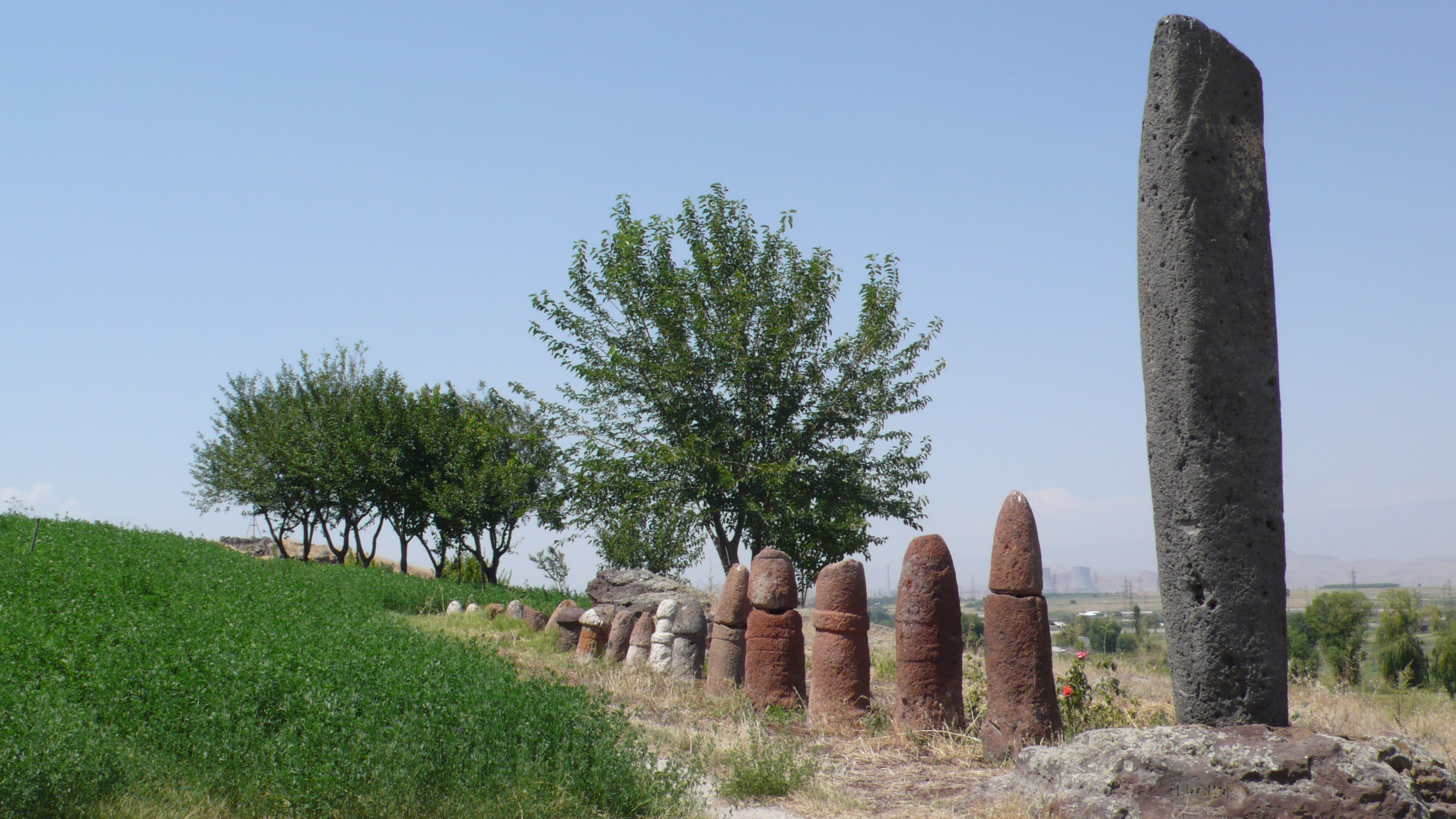 The site of the ancient Metsamor castle in Armenia.